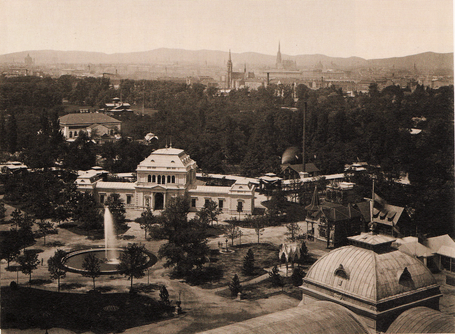 Expo 1873 Area from above